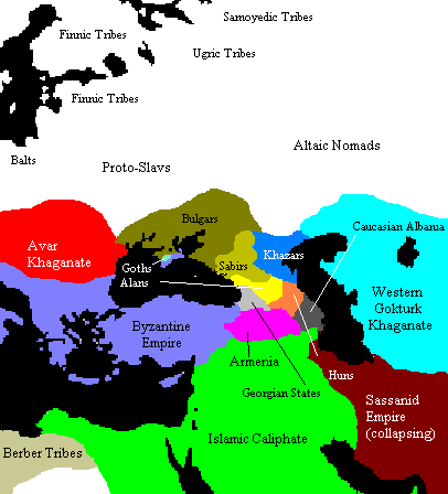 The Pontic steppe region, c. 650 AD. Image uploaded to English Wikipedia under GFDL by the author User:Briangotts.